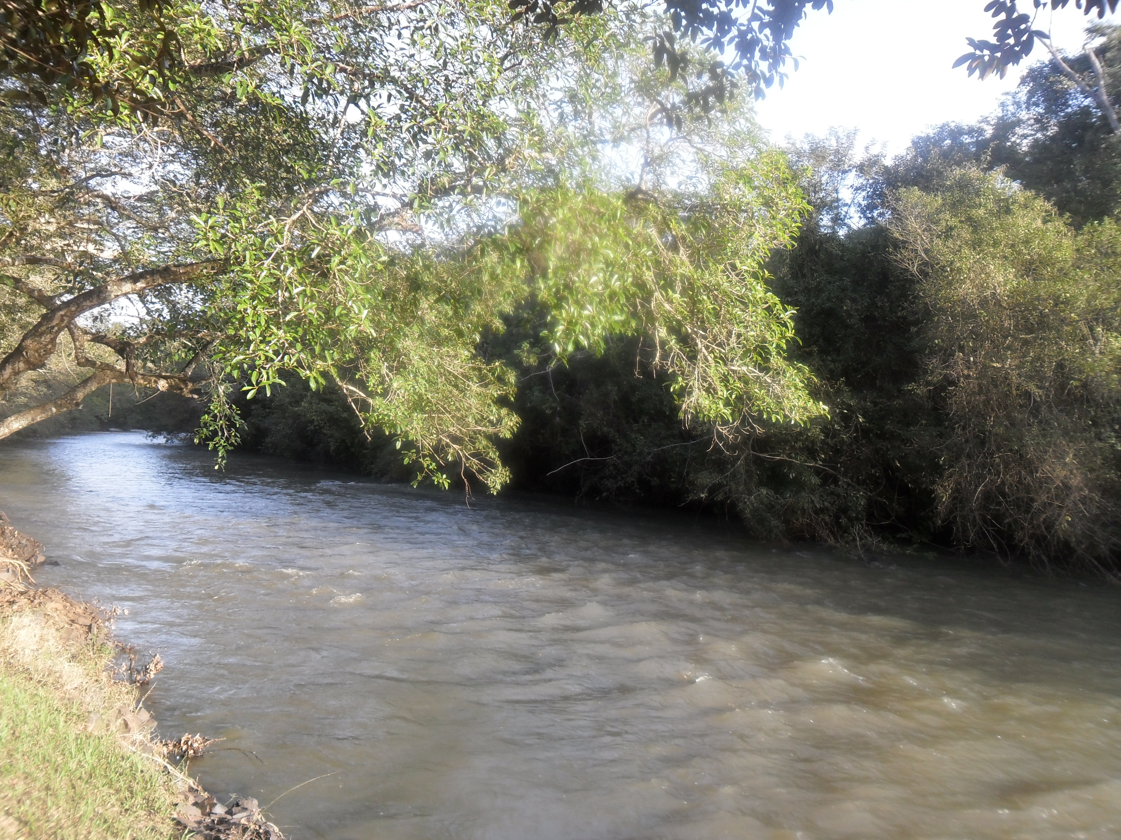 São José dos Dourados river in Valentim Gentil town, Brazil.